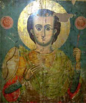 Theodosiy_of_Veles,_icon,_ca._1814–1820_in_St_George_Church_in_Kočani